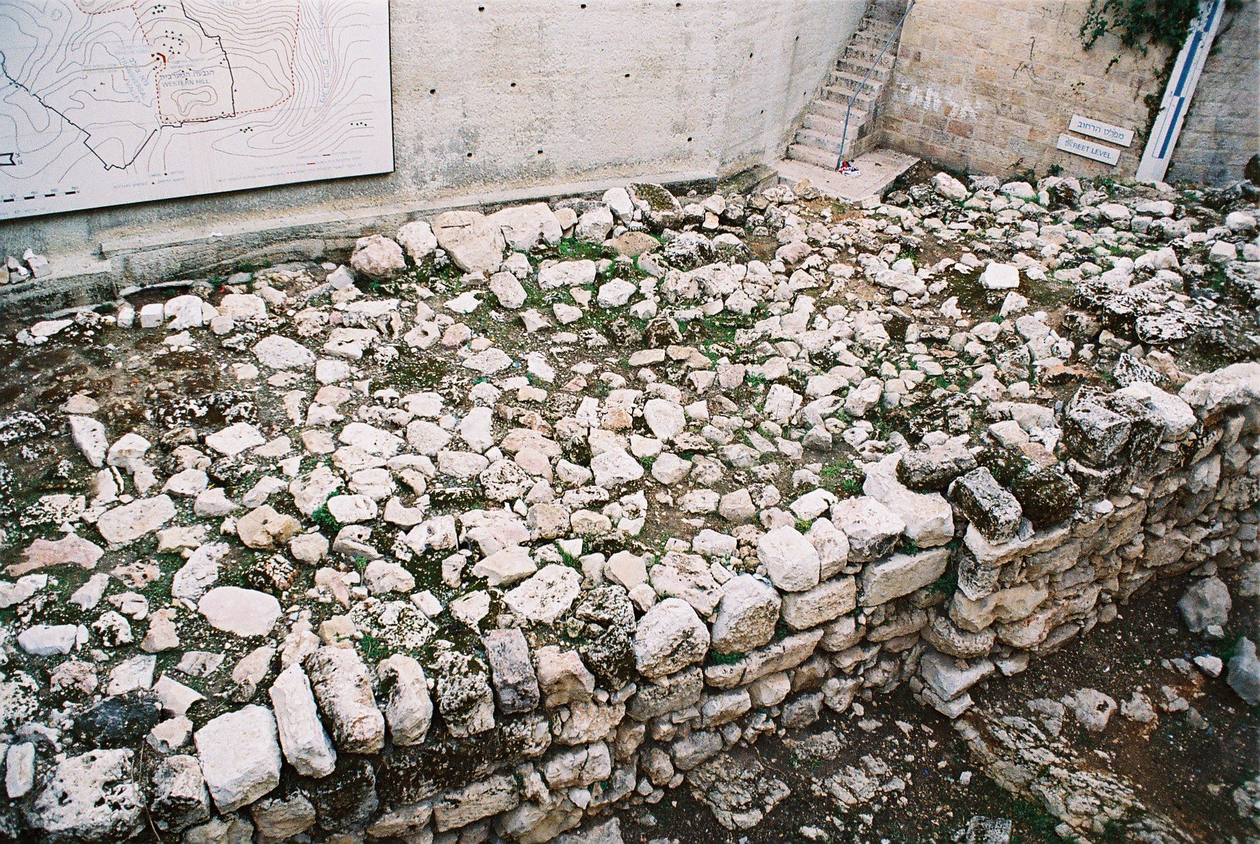 Remnants of the broad wall of biblical Jerusalem, built during Hezekiah's days against Sennacherib's siege. Excavated at the old city of Jerusalem, Israel. "And ye numbered the houses of Jerusalem, and ye broke down the houses to fortify the wall", Isaiah 22 10